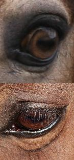 Comparison between the lighter brown or amber eyes of a buckskin and the dark brown eyes of a bay.